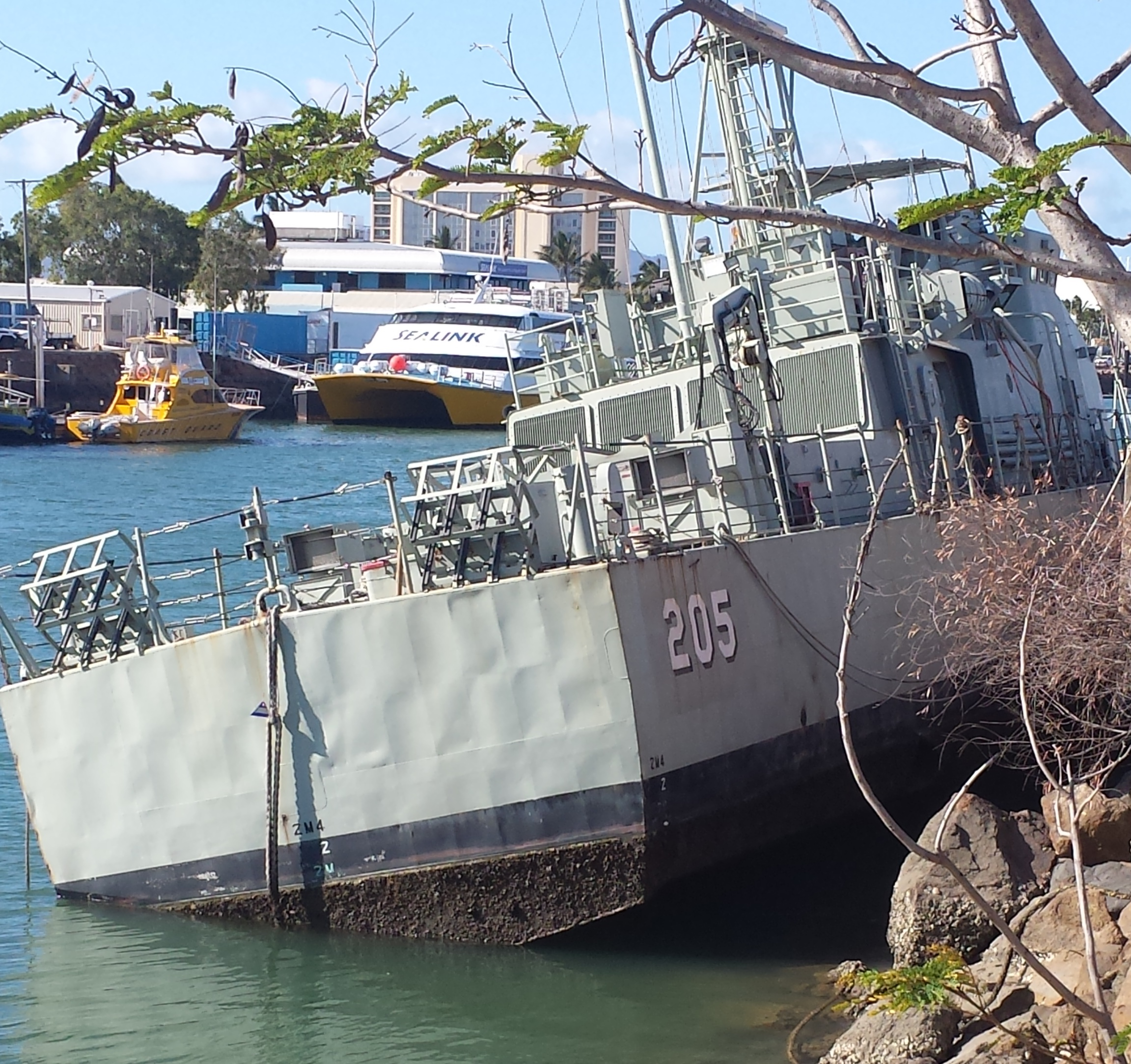 Hmas Townsville at low tide